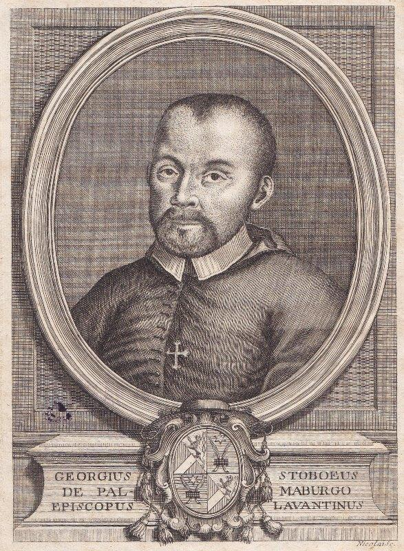 Stobaeus, Georg. Portrait with title of his book in latin: Epistole ad diversos, nuper a p. Hieronymo Lombardi primum vulgatae, nunc denuo recusae.